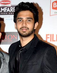 Composer Amaal Mallik at the 61st Britannia Filmfare pre-awards party.